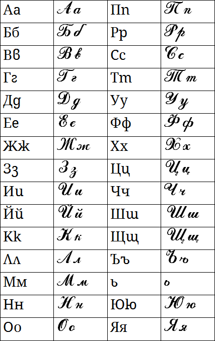 Version of Bulgarian cursive alphabet